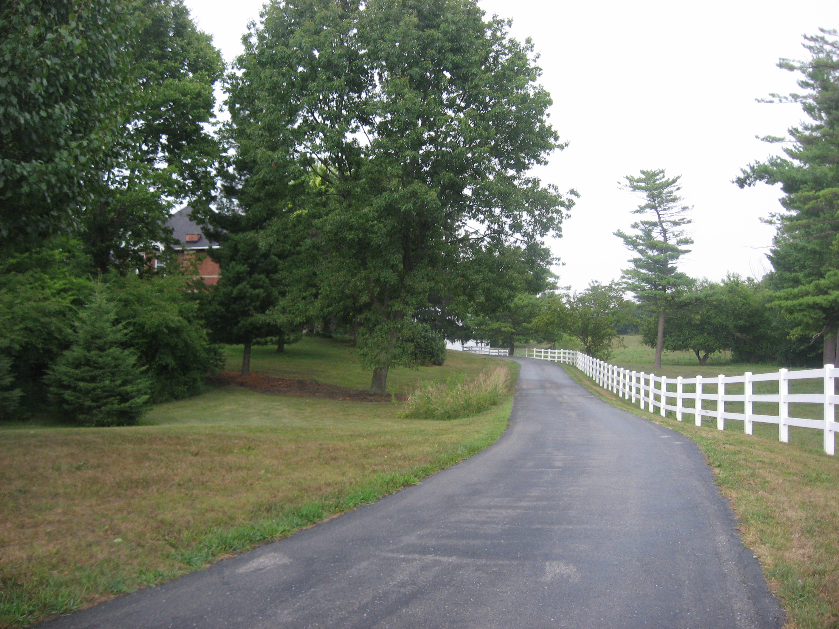 Driveway to the Westcott Stock Farm, located at 306 E. North Street in Centerville, Indiana, United States. The farm complex is listed on the National Register of Historic Places.